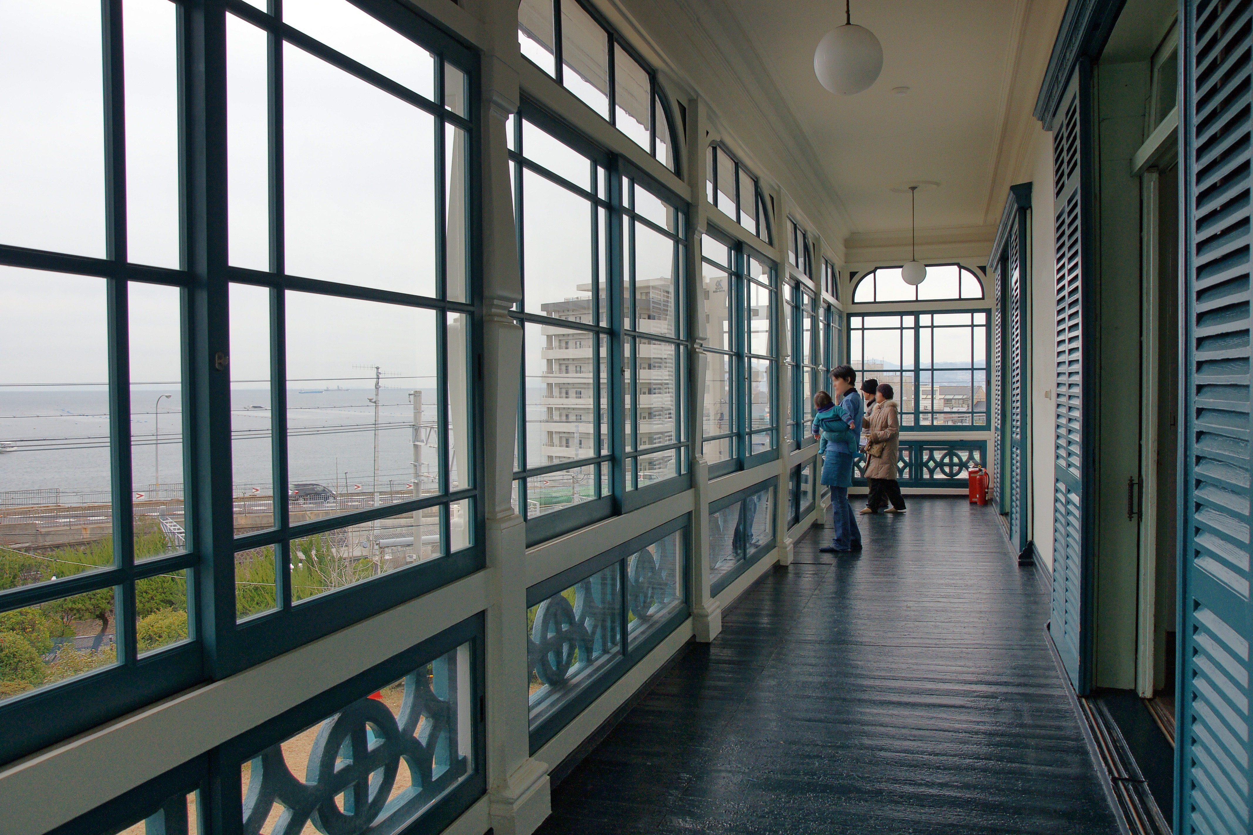 The Old Guggenheim House , Kobe, Hyogo prefecture, Japan